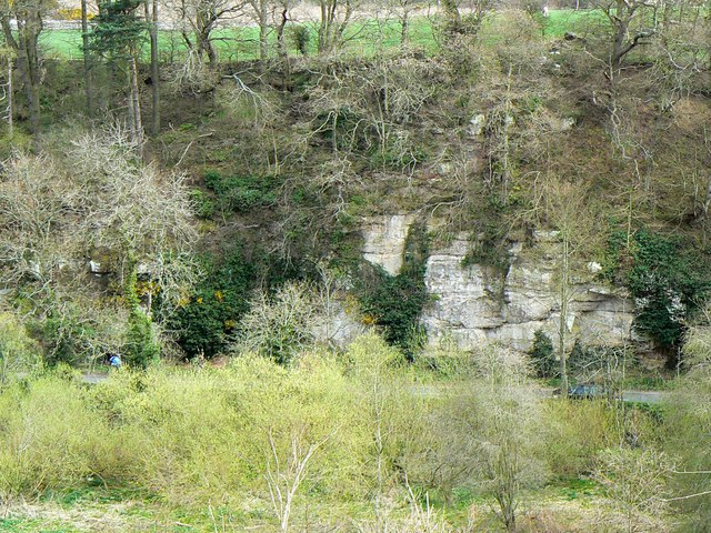 Cliffs in Dura Den In these sandstone cliffs a remarkable collection of fossil fish were discovered in the early 19th century. Some of these are on display in St Andrews museums. This photograph was taken from the ridge on the west side of the burn looking down towards the cliffs on the east.